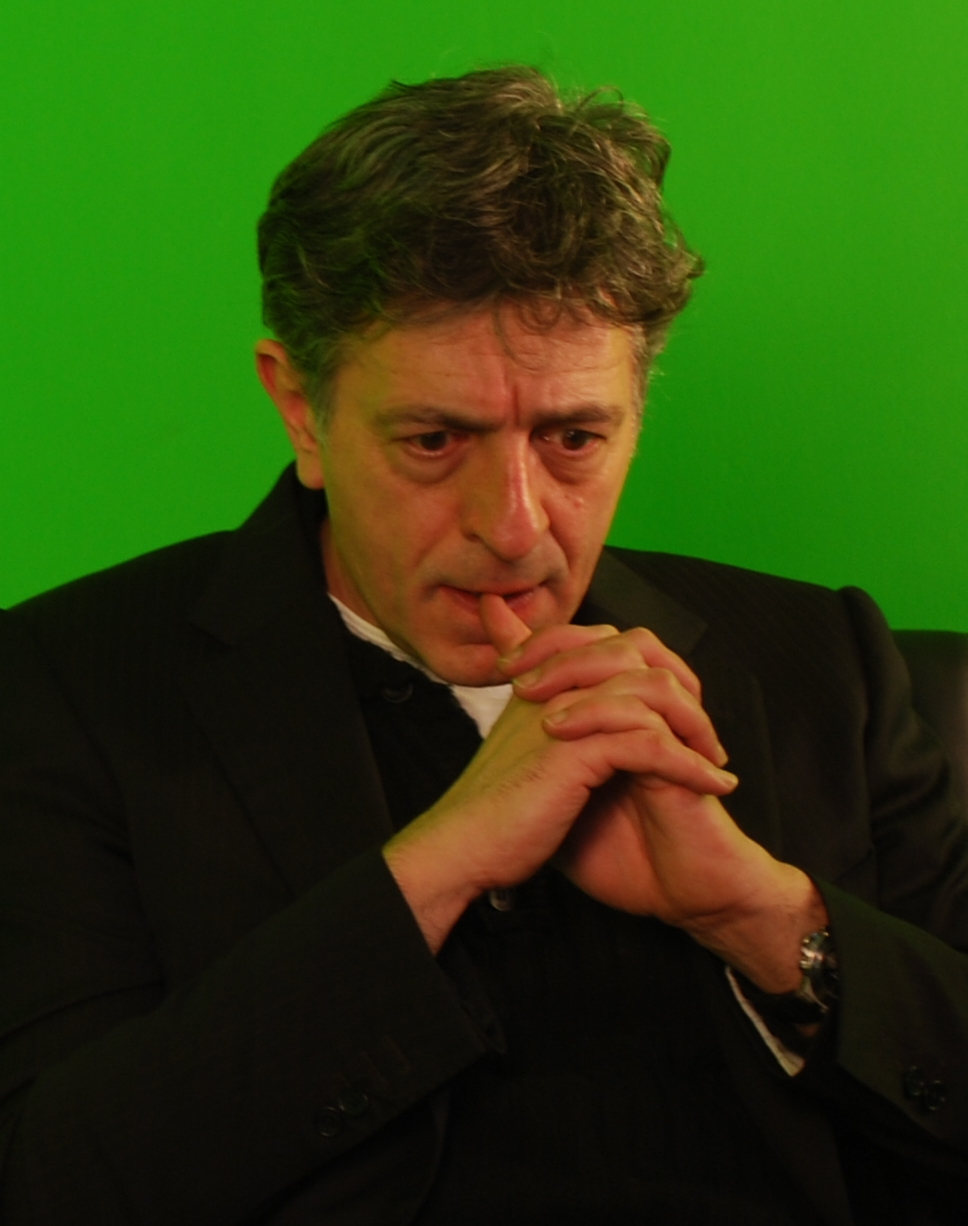 Greek journalist Stelios Kouloglou. Photo taken at an interview with politiko blog.